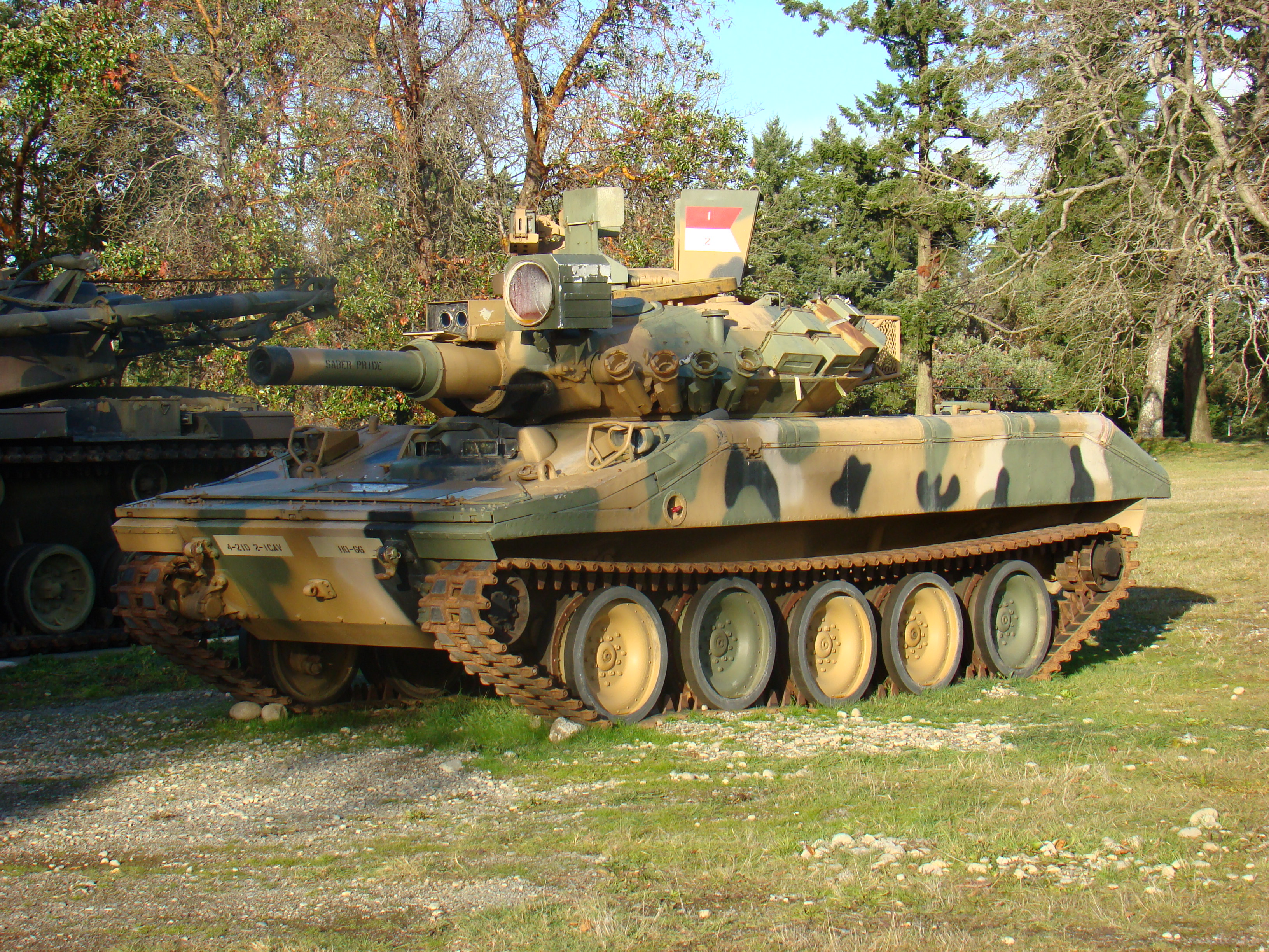 M551 Sheridan at Fort Lewis Military Museum Tacoma WA